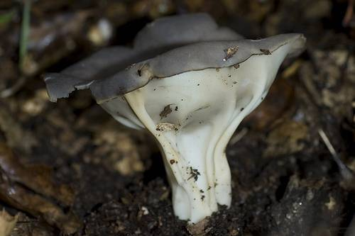 A sporocarp of the fungus Helvella costifera. Photographed in Highway 74, Cleveland National Forest, Orange Co., California, USA.